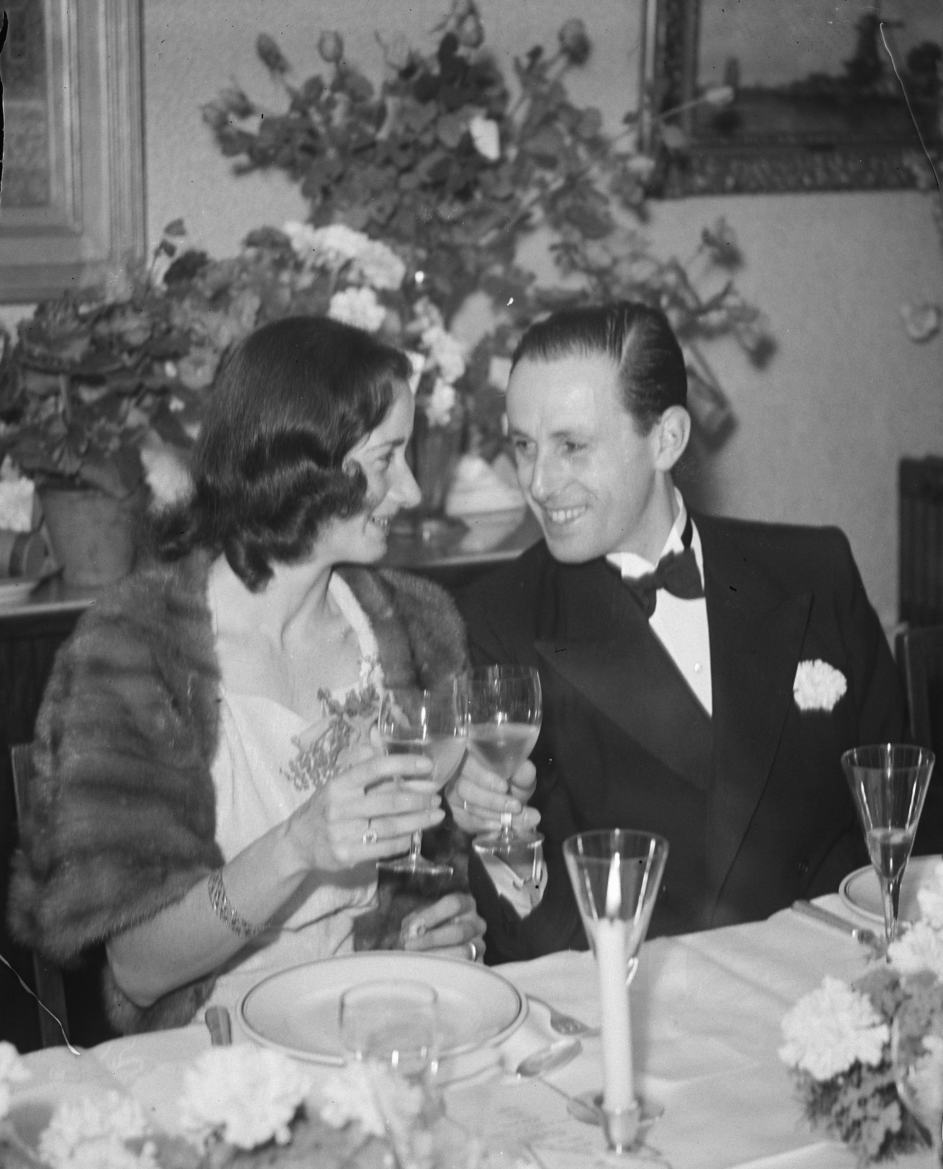 Ingeborg Wallheimer and Fritz Kahlenberg, during dinner (at their wedding?) in the Netherlands in 1946